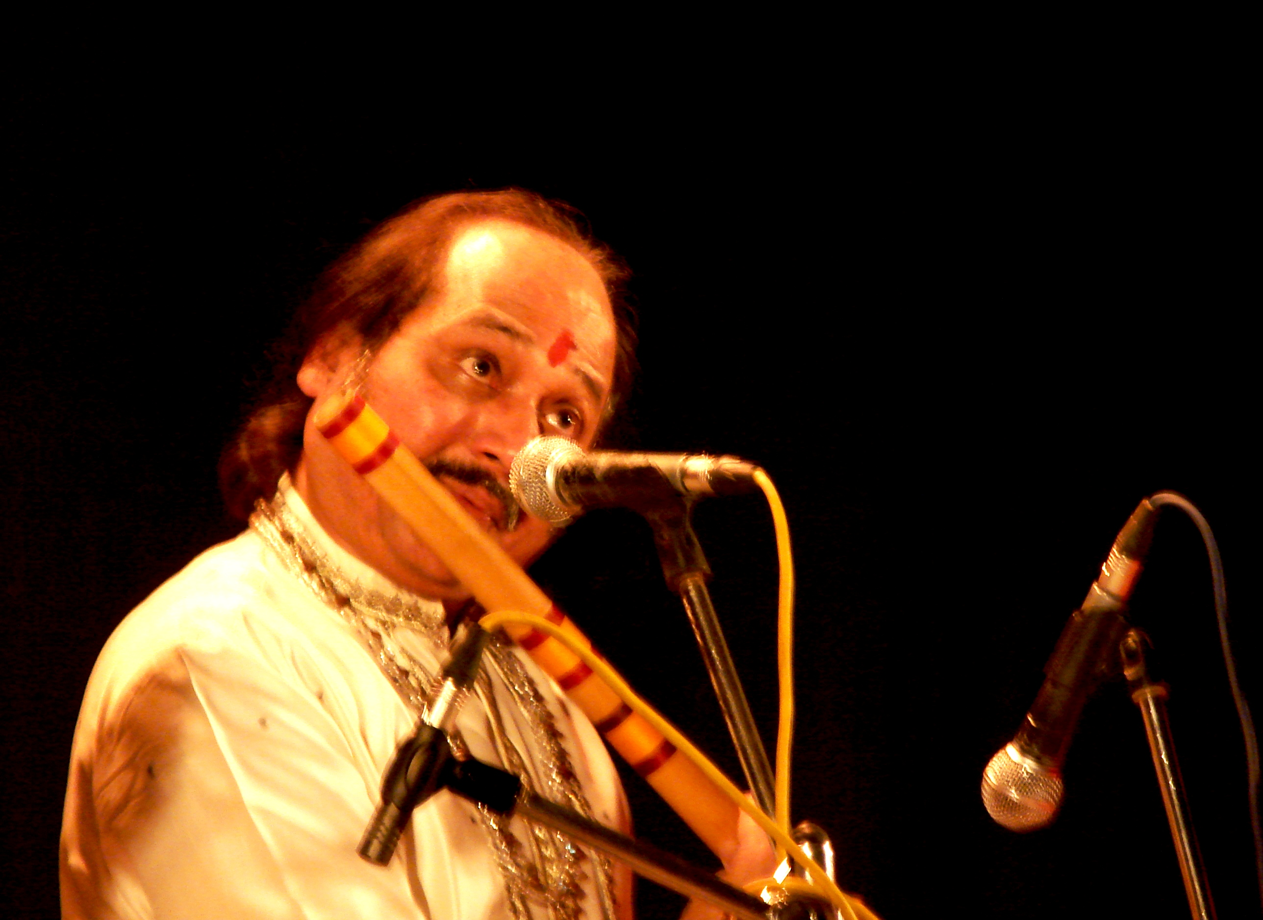 Ronu Majumdar performing in Pune